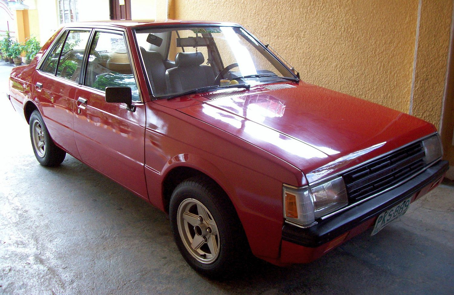 1987, 4G32 powered GT Lancer EX in stock form. Shot in a garage in Dasma, Cavite, Philippines